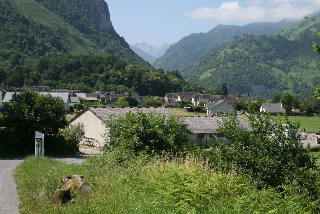 Accous, Aspe-valley, France: The village seen from the north. Behind that you se the valley of Aspe between the Pyrenees.